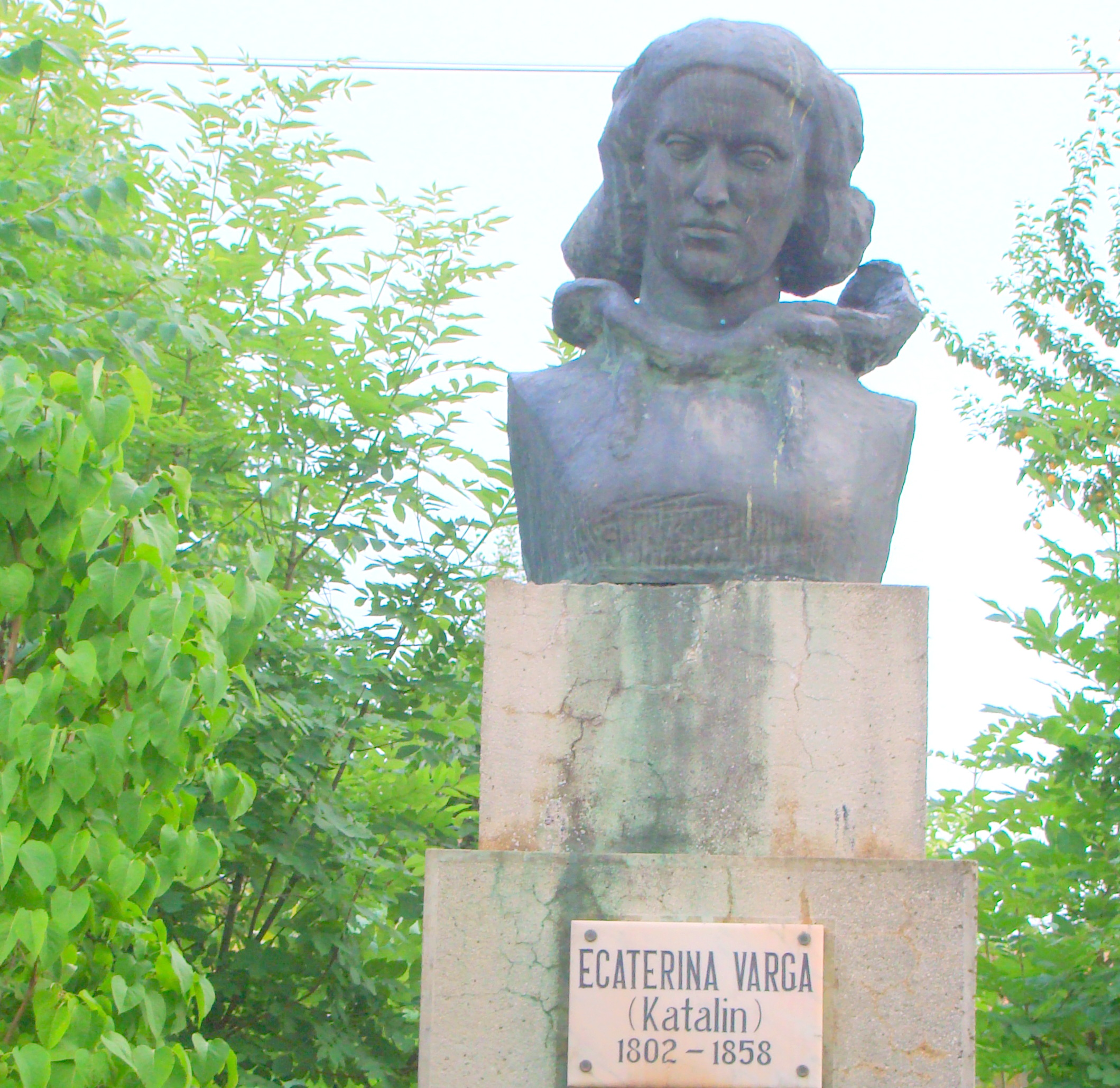 Hălmeag, Brașov County, Romania